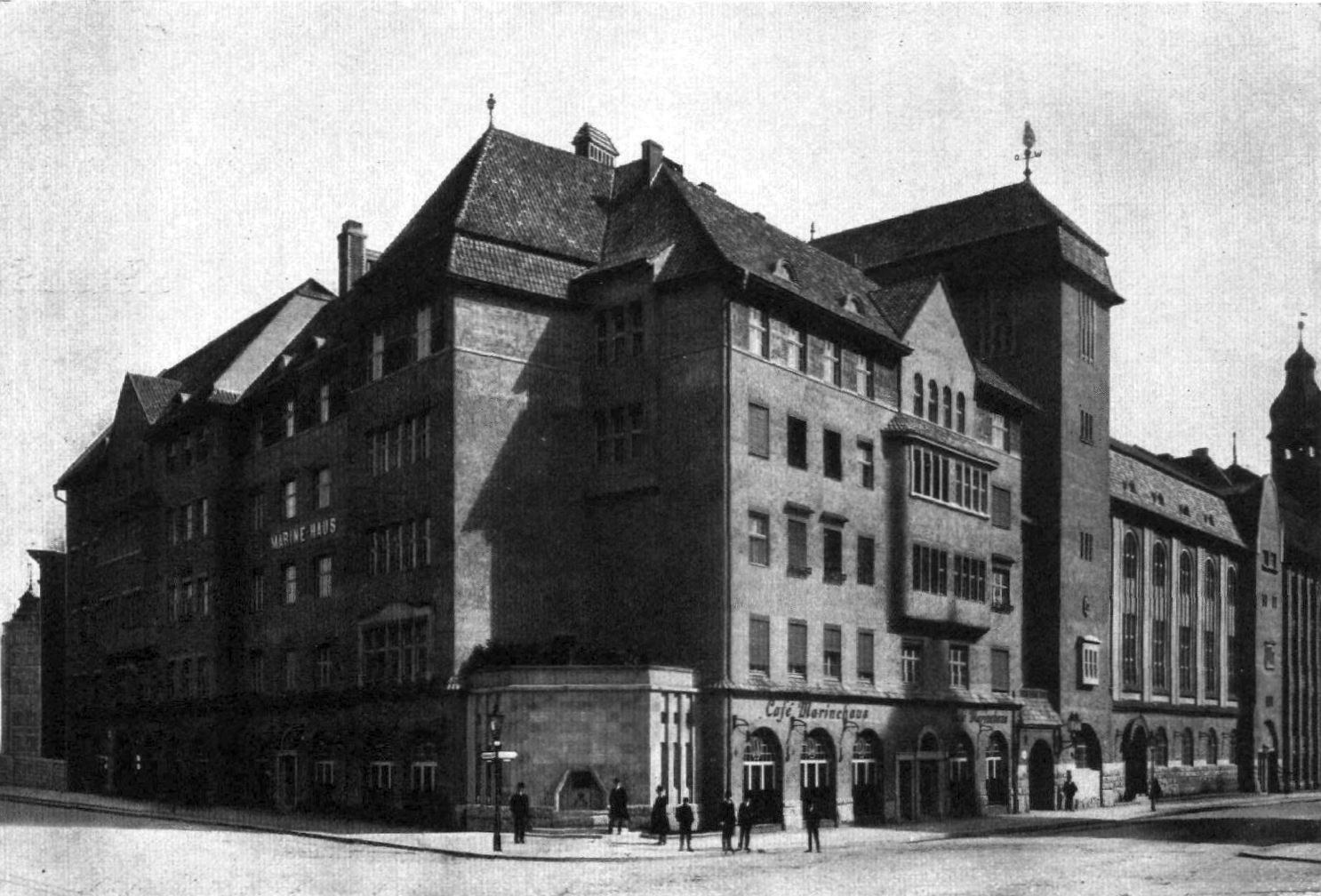 The "Marinehaus" at Berlin-Mitte (Luisenstadt), Brandenburgisches Ufer 1 (today Märkisches Ufer 48/50) / Am Köllnischen Park 4/4a (right)